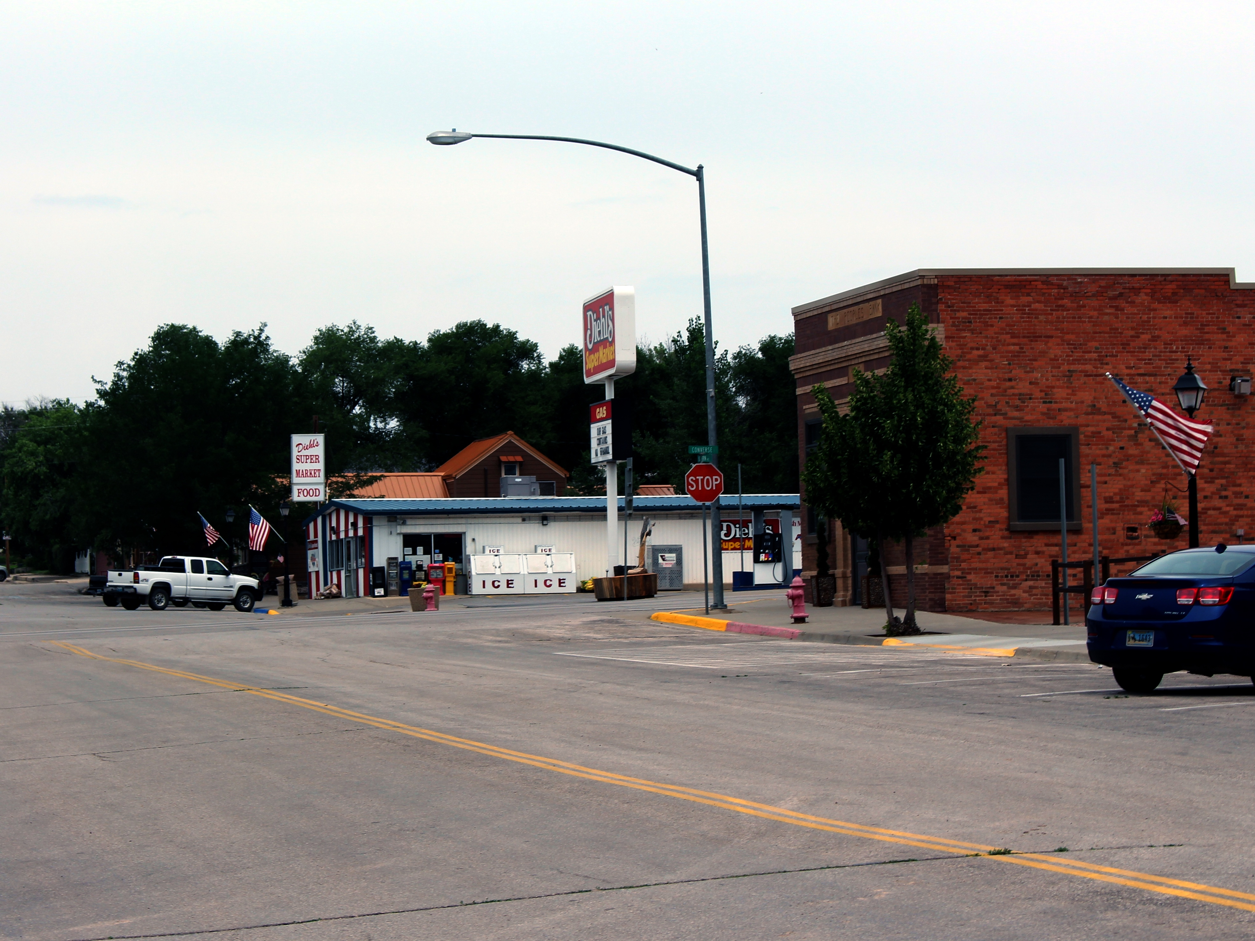 Big Horn Avenue in Moorcroft, Wyoming, USA